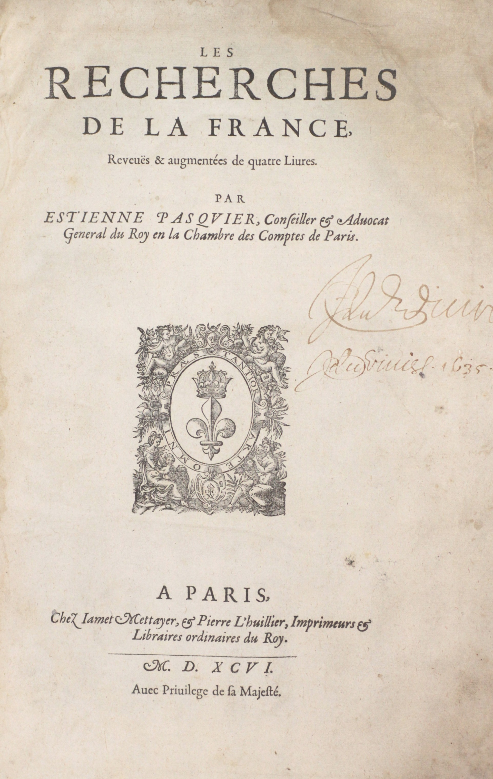 Etienne Pasquier: Recherches de la France